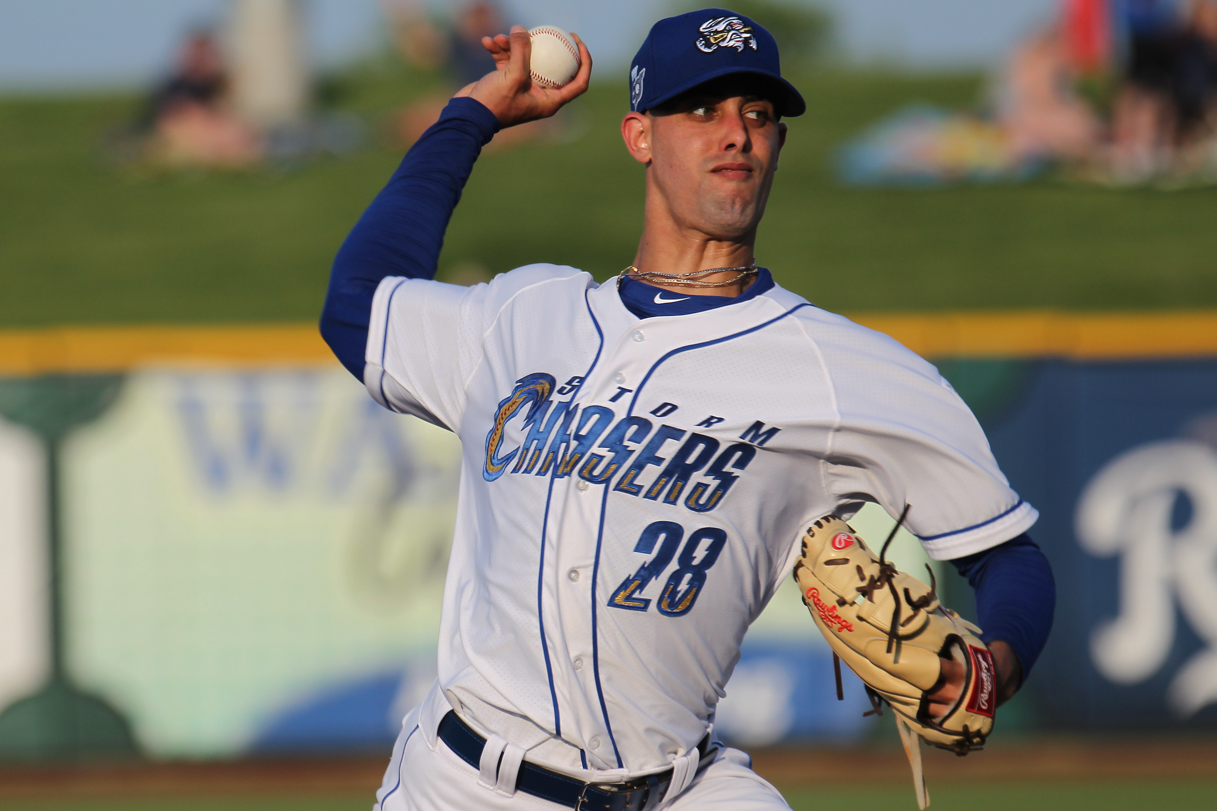 Jorge López pitching for the Omaha Storm Chasers in 2018